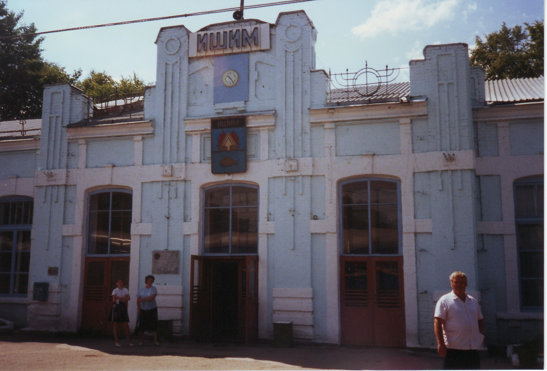 Train station at Ishim (Tyumen Oblast, Russia).